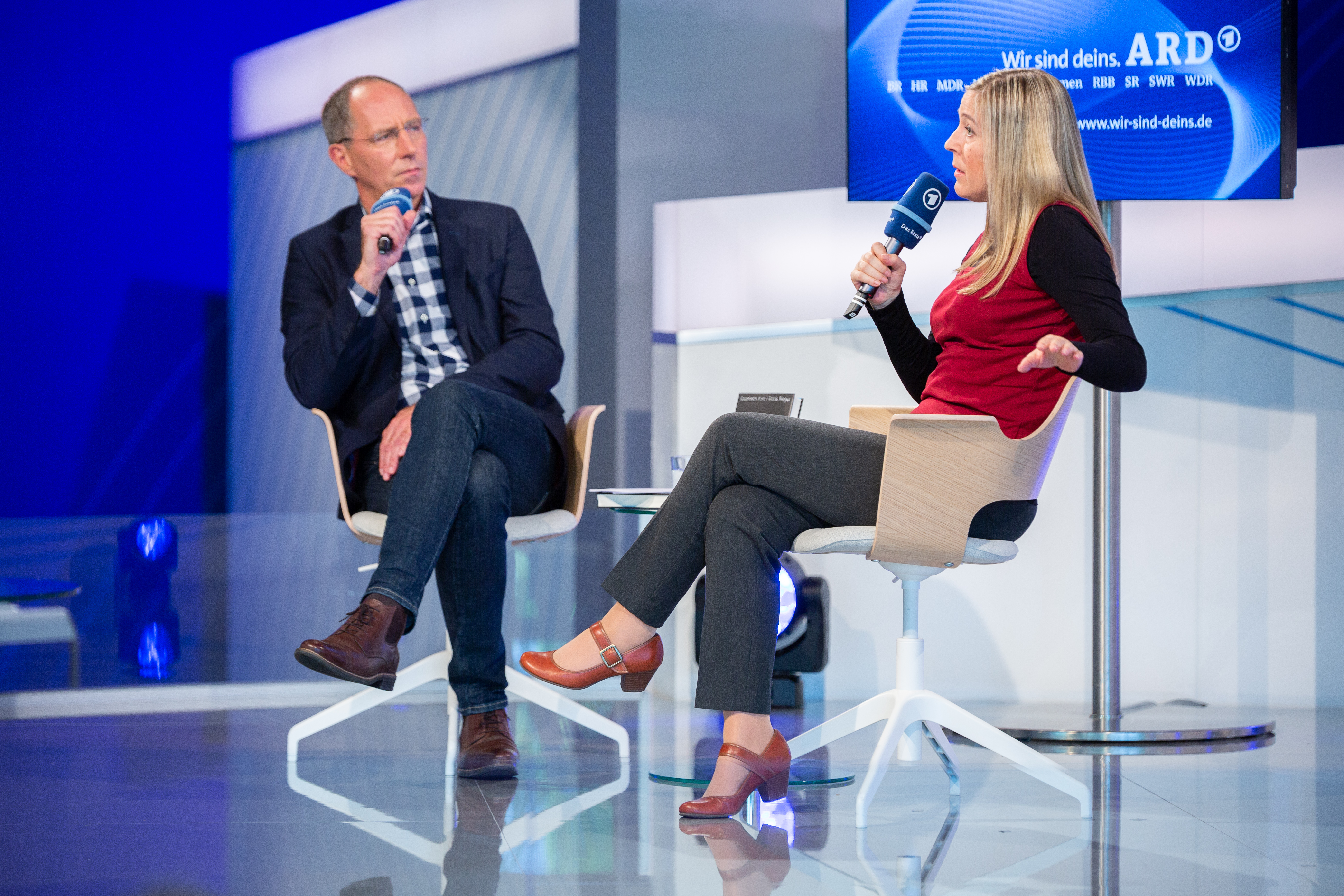 Constanze Kurz talking to Thomas Ranft at the Frankfurt Book Fair 2018